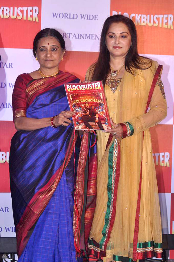 Bhavna Somaiya, Jaya Prada at the launch of T P Aggarwal's trade magazine 'Blockbuster'